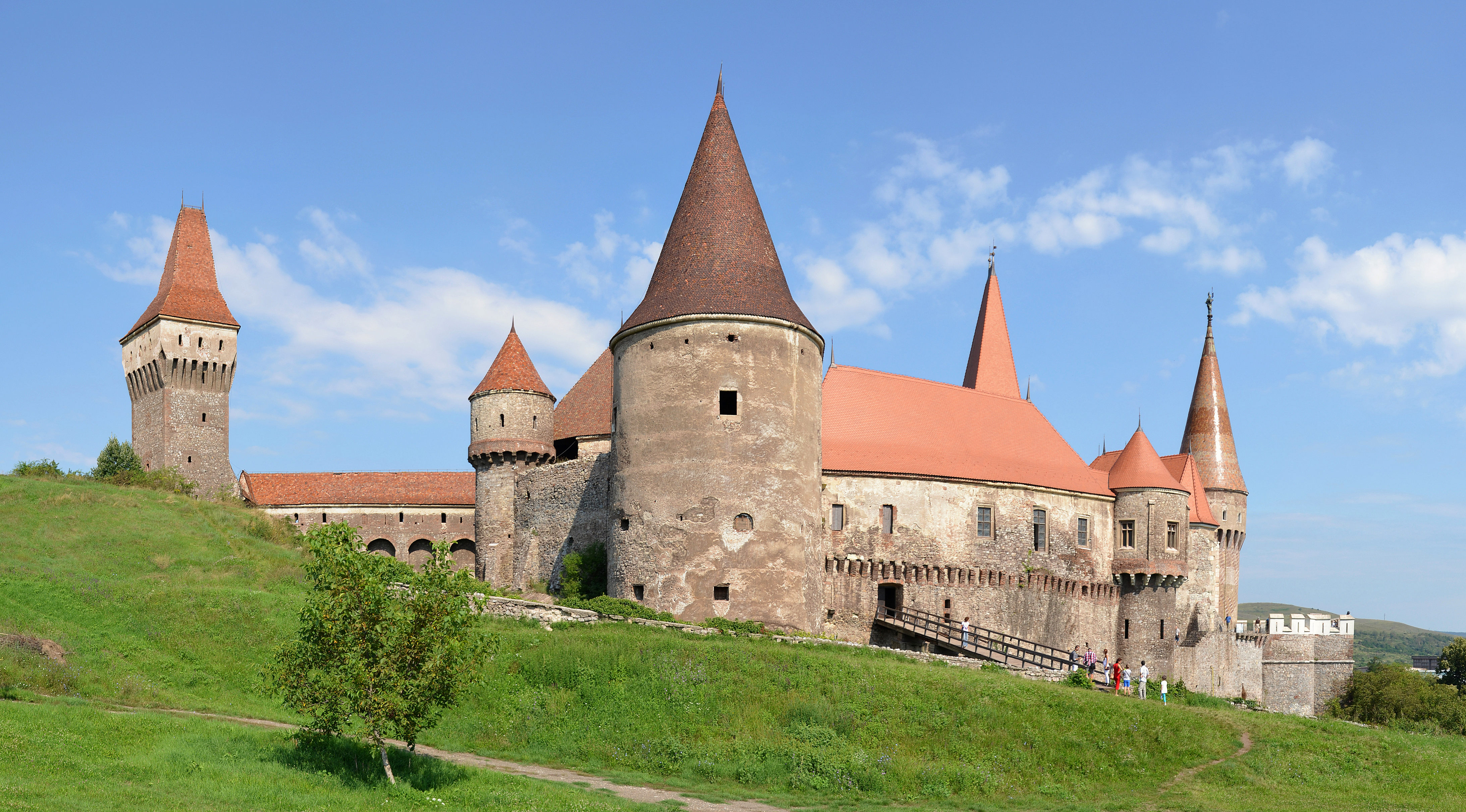 Hunedoara Castle, Romania